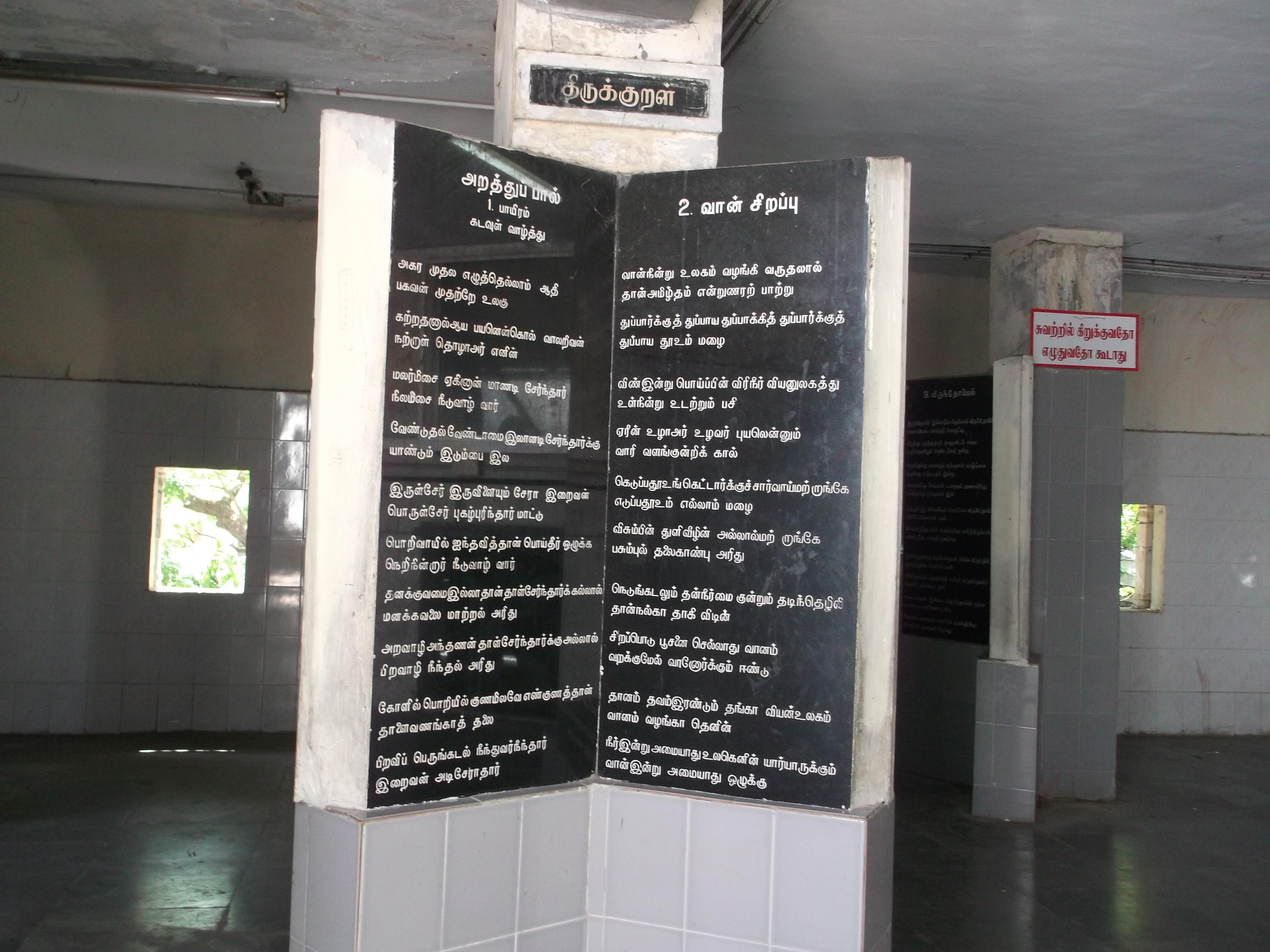 Pillars are constructed in such a manner that it looks like a open book. In each pillar 20 Tirukkurals are written such as 10 on left side and 10 on right side in the book page. By this way 1330 Tirukkurals are wrritten inside Valluvar kottam.